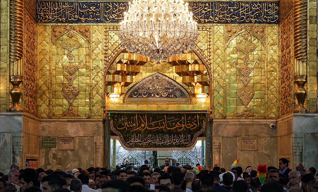 The First Laylat Al Jum'ah of Ramadan 1439 AH in Karbala. main album